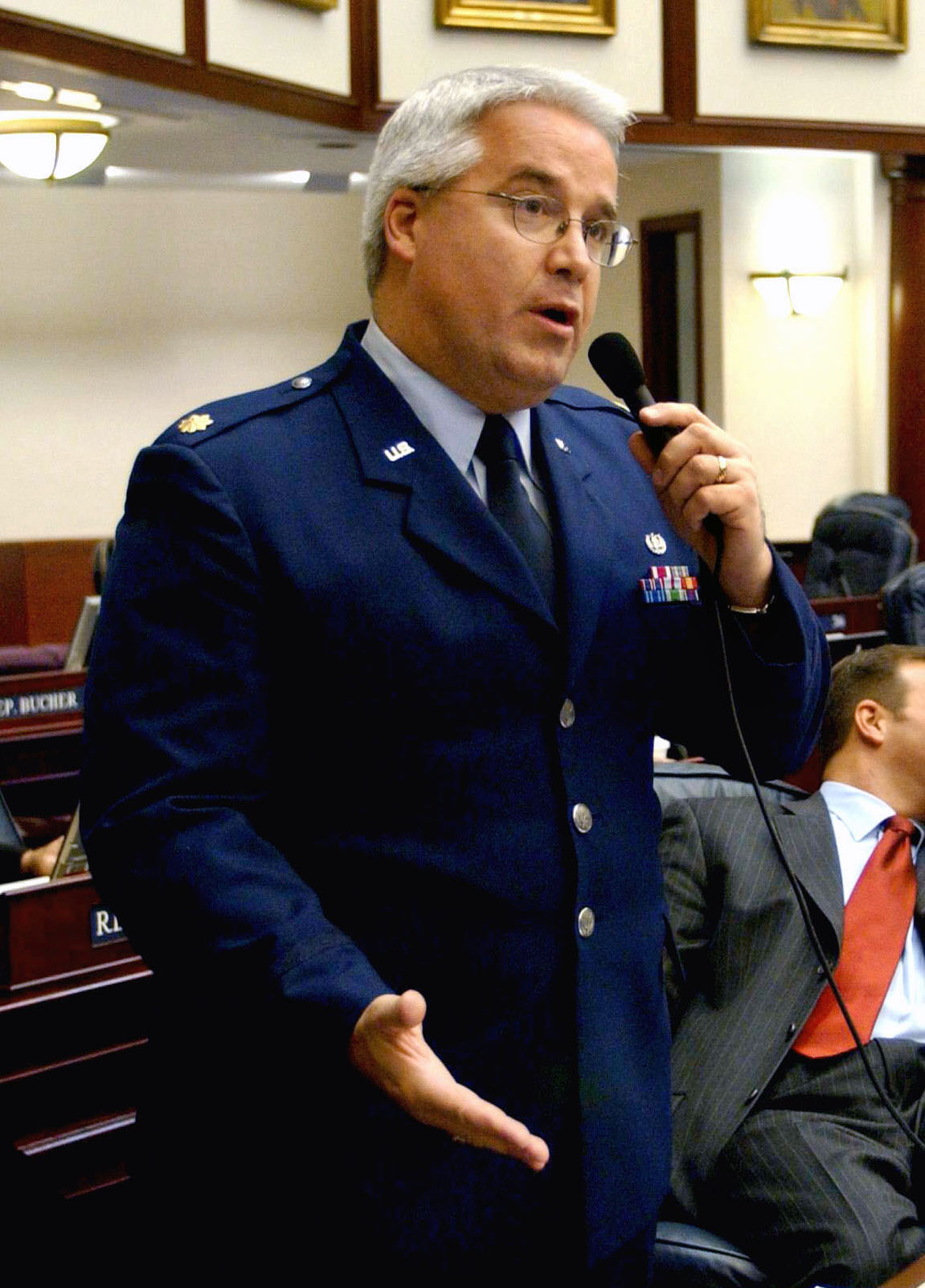 Rep. Kevin Ambler, R-Tampa, shares his view of support for a resolution during the 2003 Legislature.